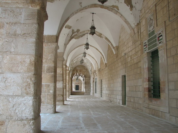 Al-Aqsa Mosque